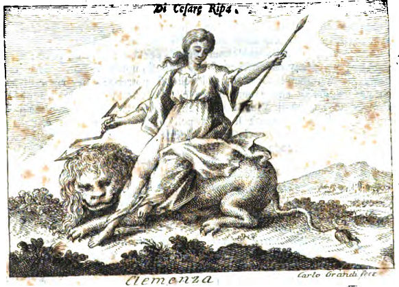 Allegory of Leniency, from Cesare Ripa in Iconologia